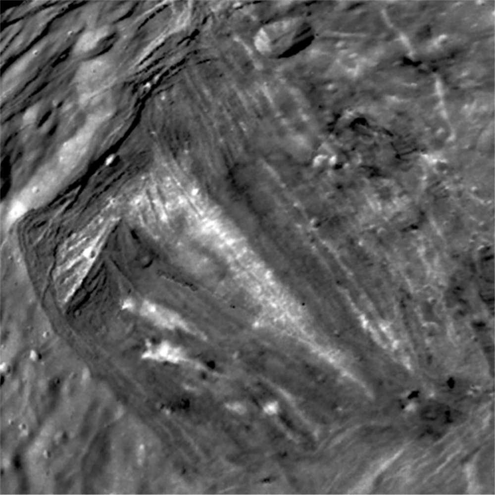 Inverness Corona from Miranda (Moon of Uranus).